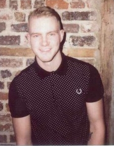 Ed at Drunk Dial Showcase